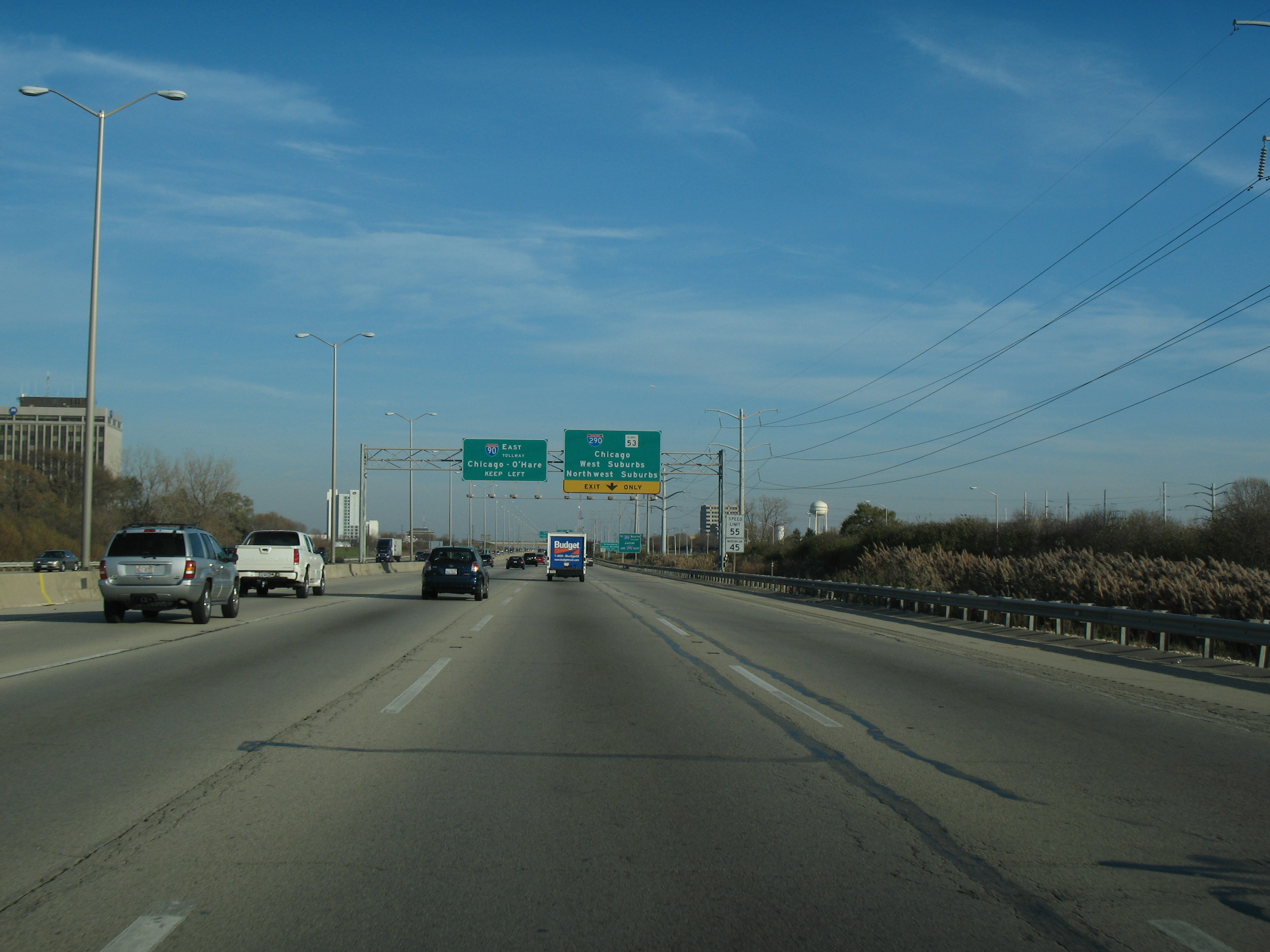 Jane Addams Memorial Tollway in Schaumburg, heading east